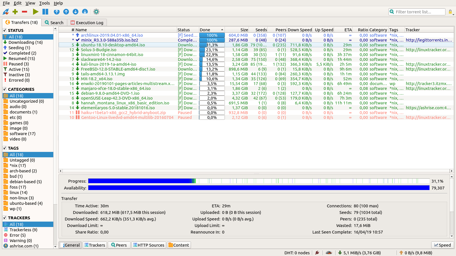 qBittorrent version 4.1.5 downloading free unix-like operating systems. Running under Lubuntu.